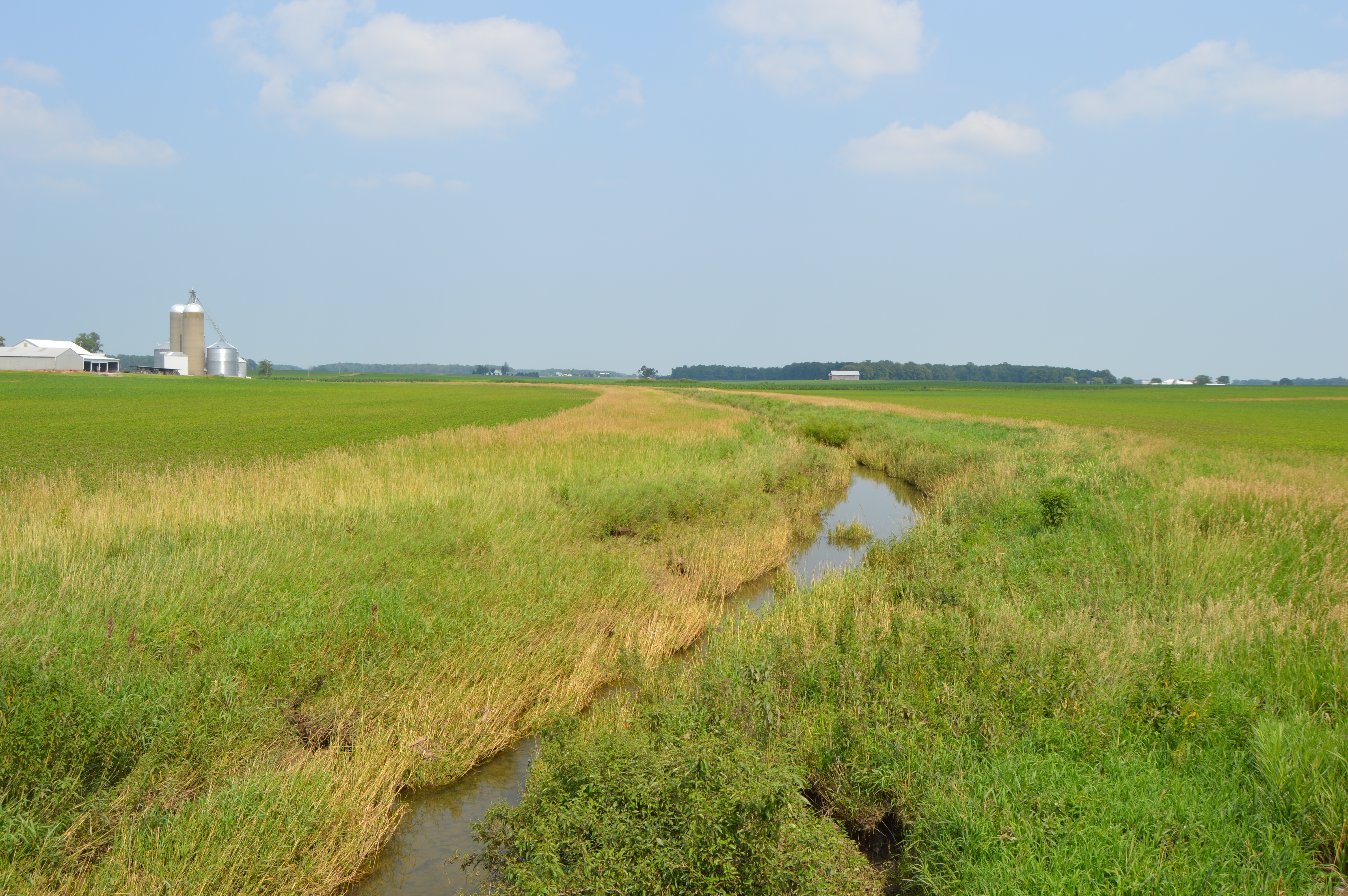 Looking eastward (upstream) along Ottawa Creek from the County Road 12 bridge in Union Township, Hancock County, Ohio, United States.